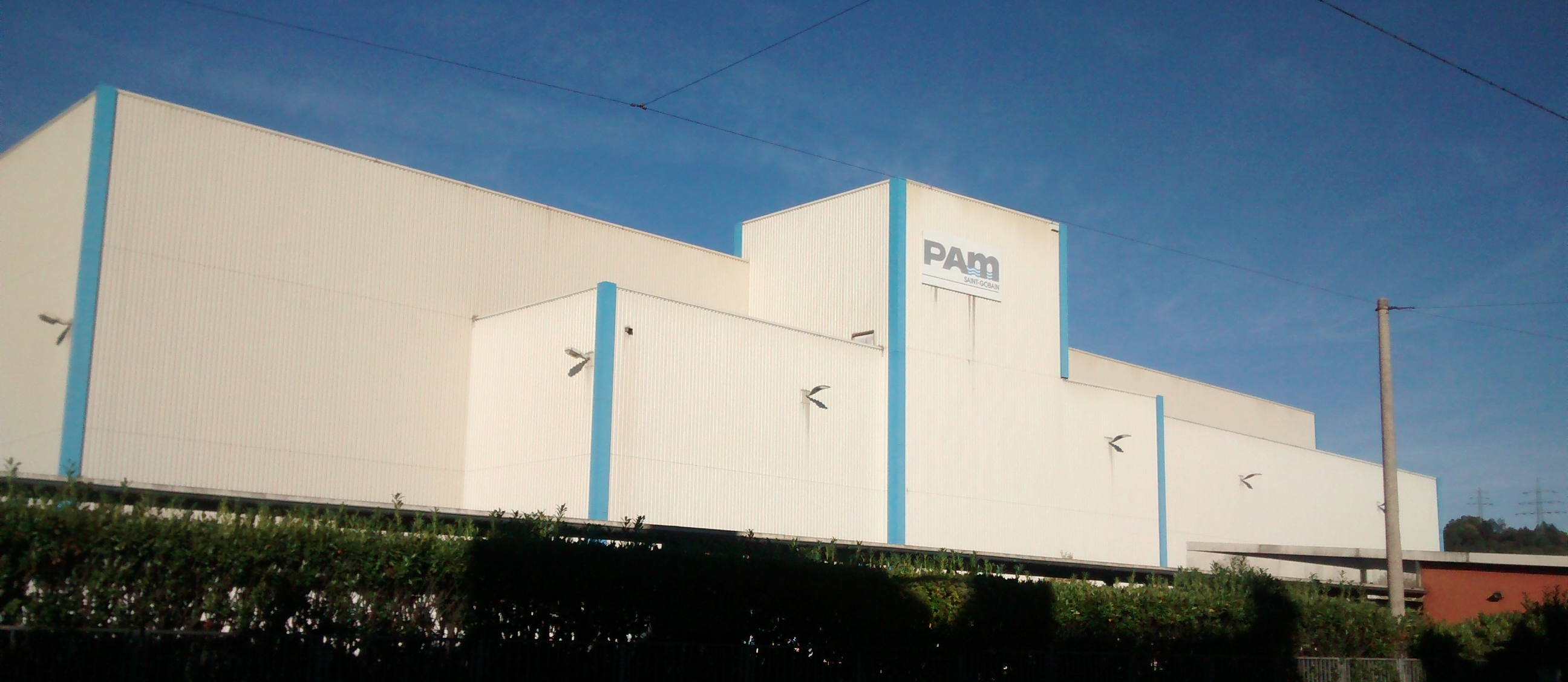 Outside view of the Halberger Hütte in Brebach